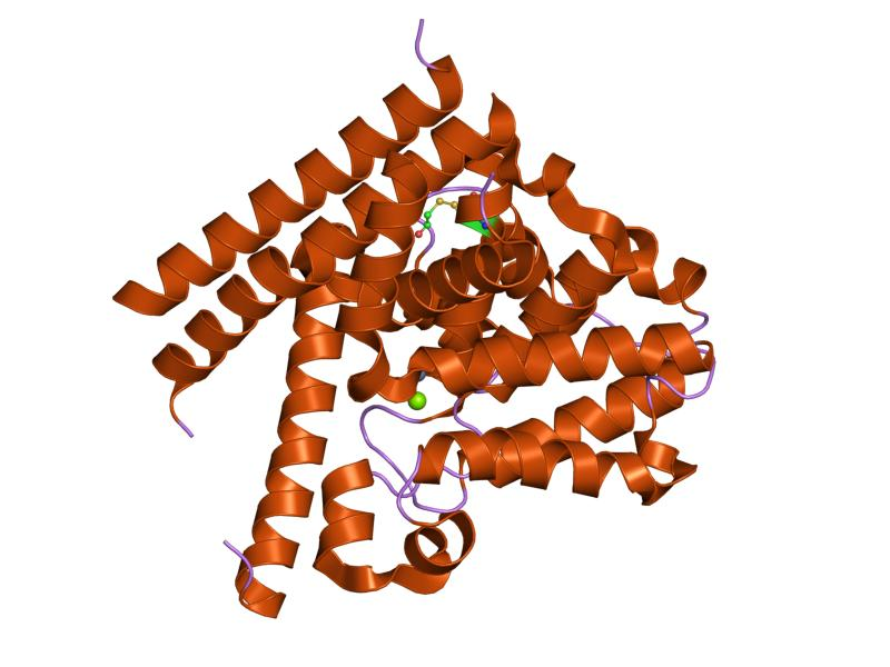 Cartoon representation of the molecular structure of protein registered with 1taz code.